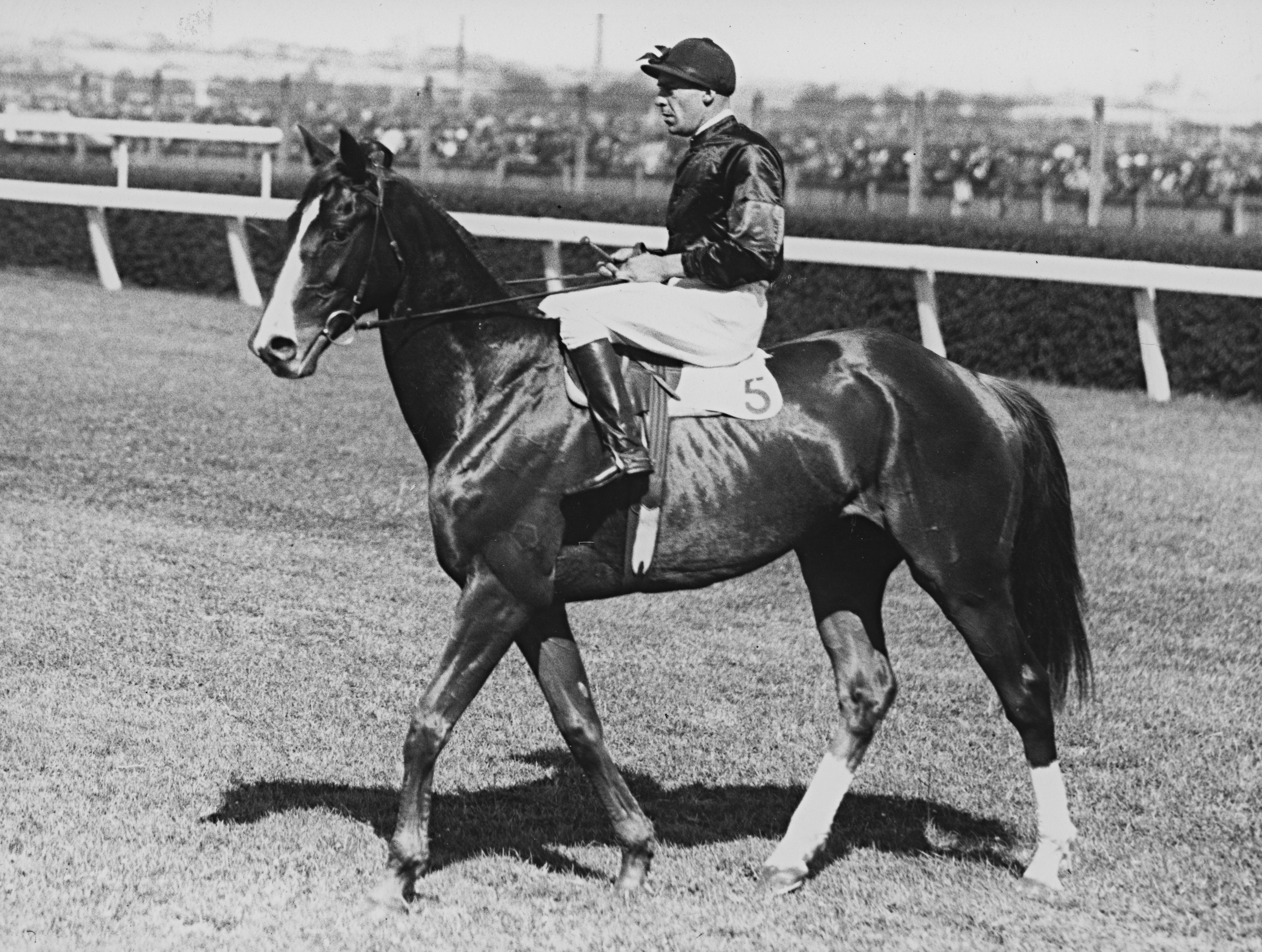 Rogilla,1933 VRC Melbourne Stakes Jockey Darby Munro